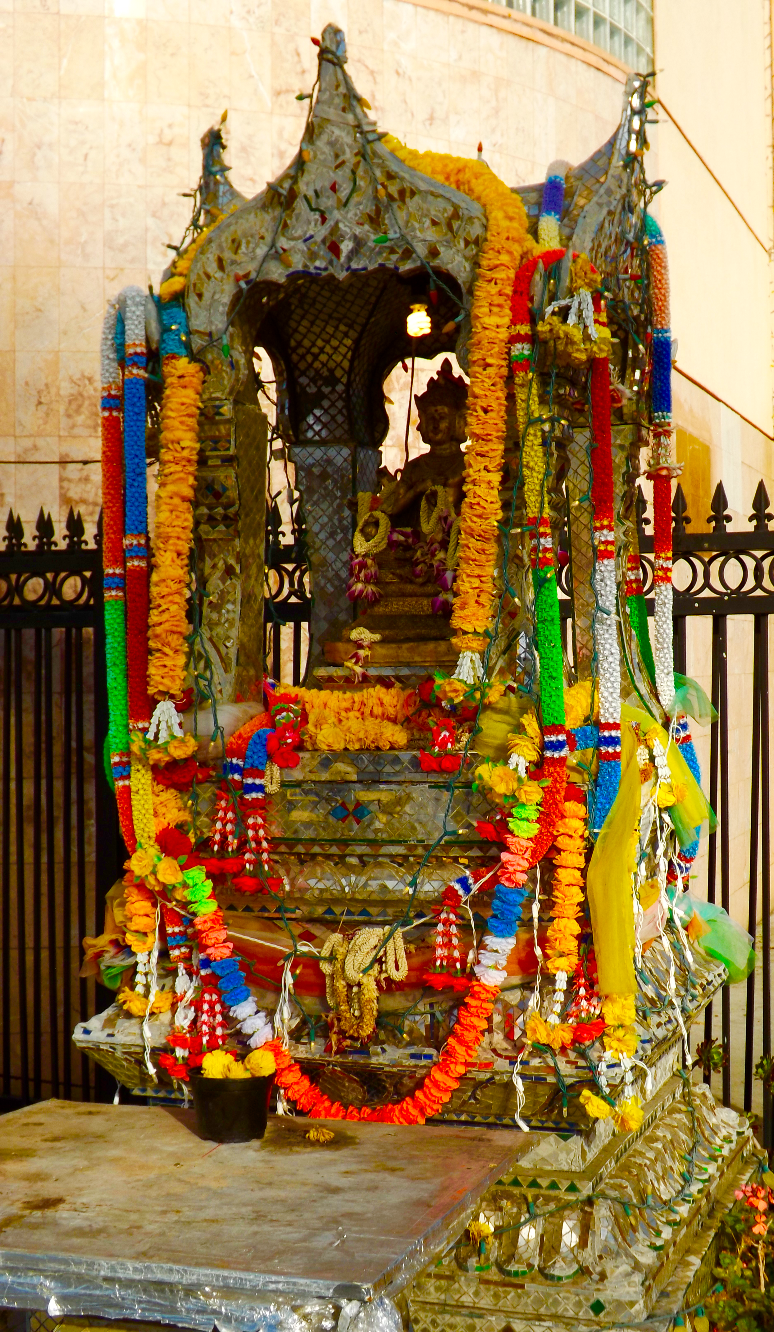 Sidewalk shrine outside Thailand Plaza on Hollywood Boulevard in Thai Town, December 25, 2015